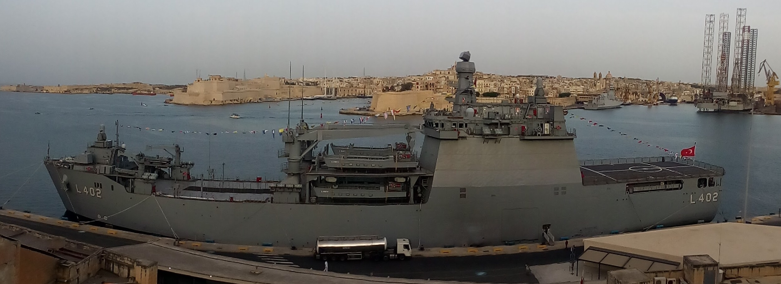 TCG Bayraktar (L-402) Turkish Landing Ship in Valletta Harbour, Malta